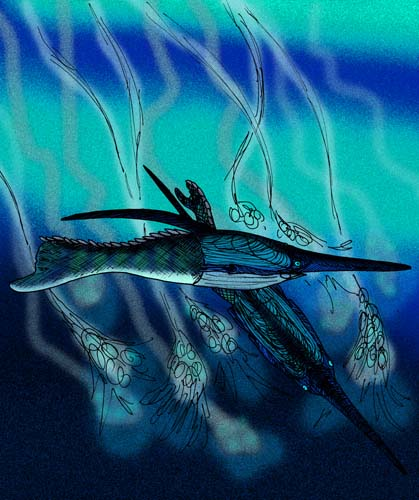 Reconstruction of the pteraspidid heterostracan, Rhinopteraspis dunensis, of Early Devonian Western Europe